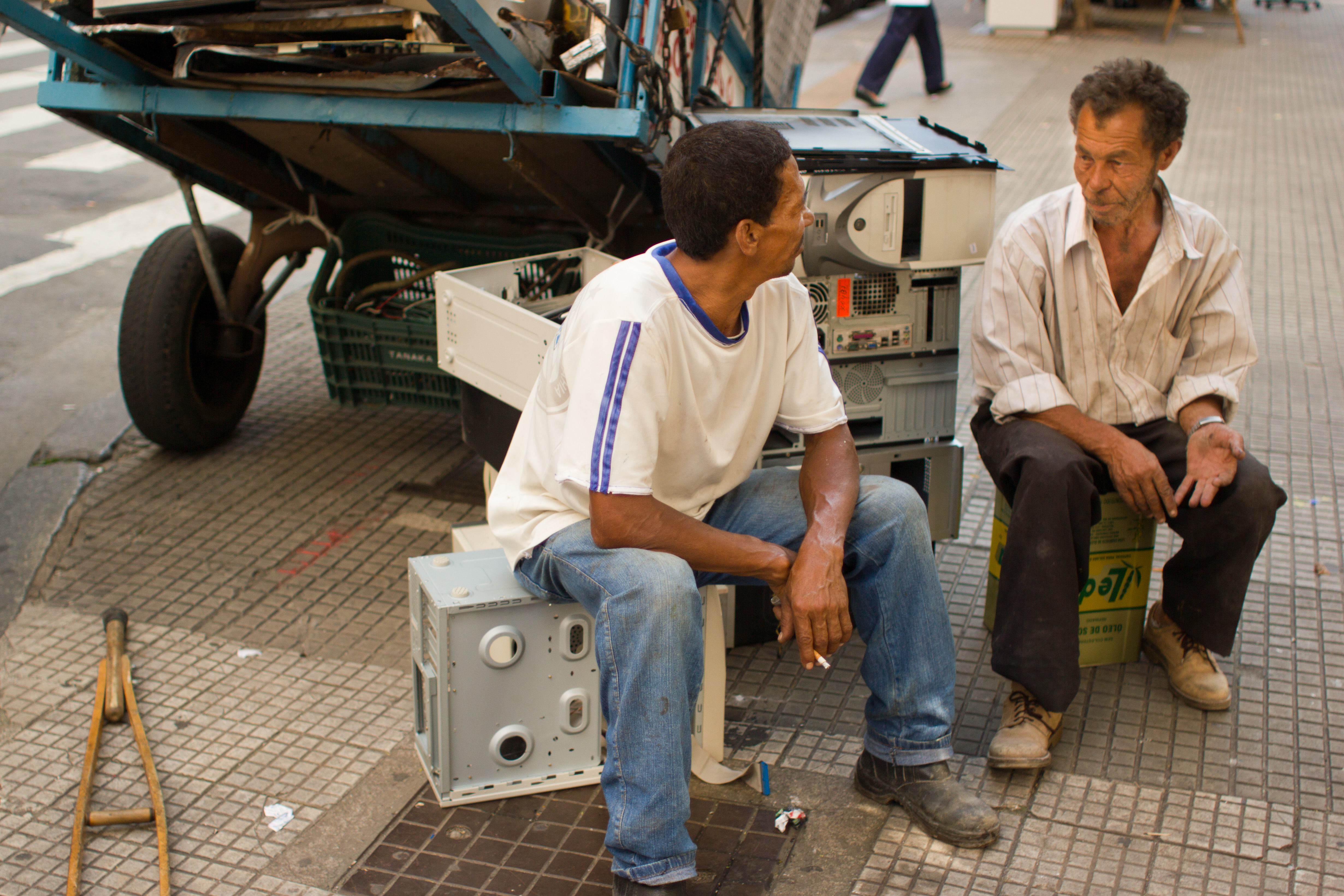 Recyclers with old computers São Paulo March 2012